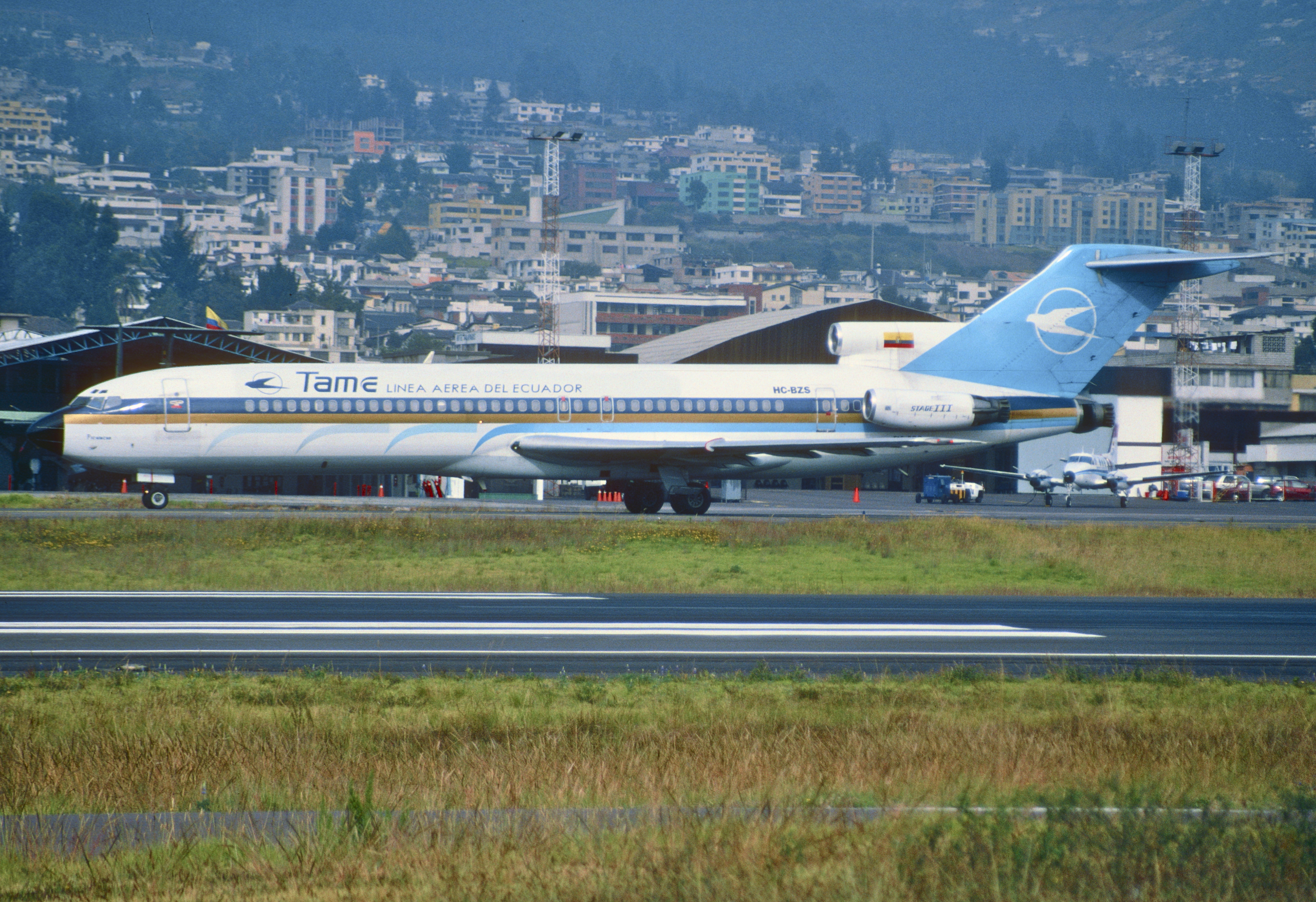 First flight: November 29, 1978...(c/n 21620/ 1419) dd 2/99 HC-BZS TAME - Linea Aérea del Ecuador, wfu 2007 TC-AFO dd 6/92 Istanbul Airlines D-ABKQ dd 12/7/78 named Mainz Lufthansa